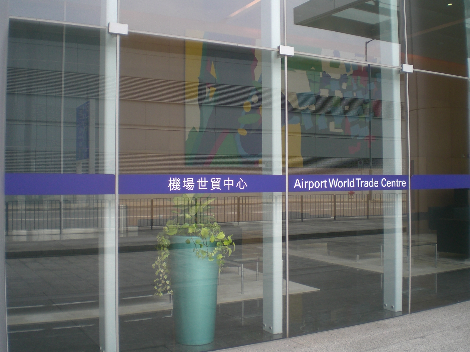 航天城 機場世貿中心